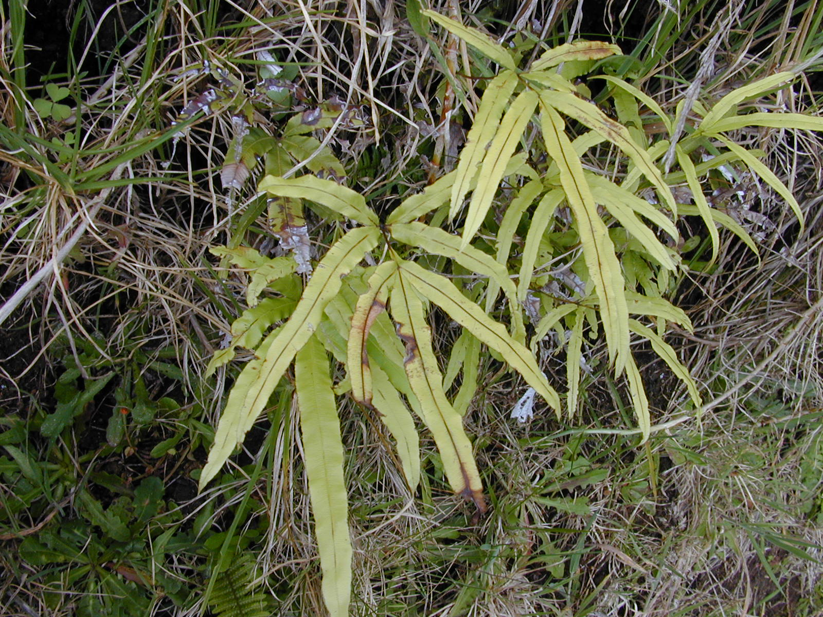 Pteris cretica (habit). Location: Maui, Polipoli